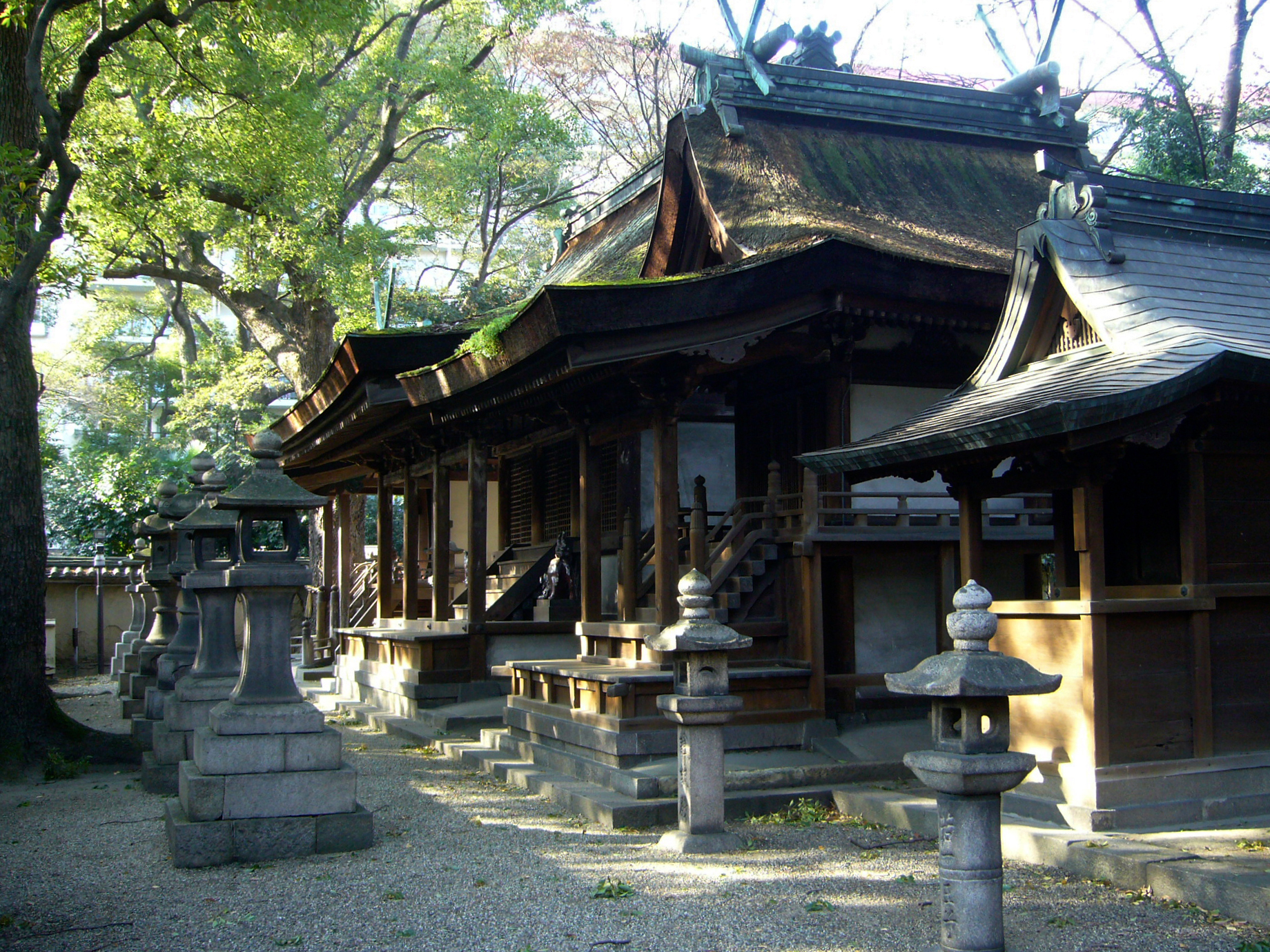 Kumata-jinja in Osaka, Osaka prefecture, Japan